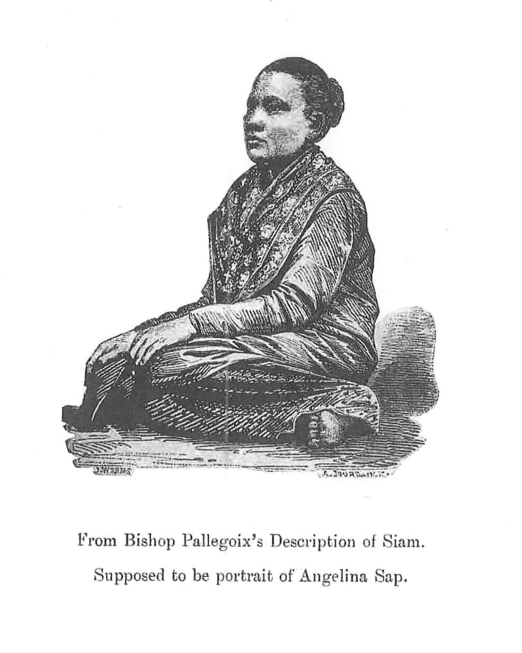 "From Bishop Pallegoix's description of Siam. Supposed to be portrait of Angelina Sap." (1805 – 1884) the wife of merchant Robert Hunter.